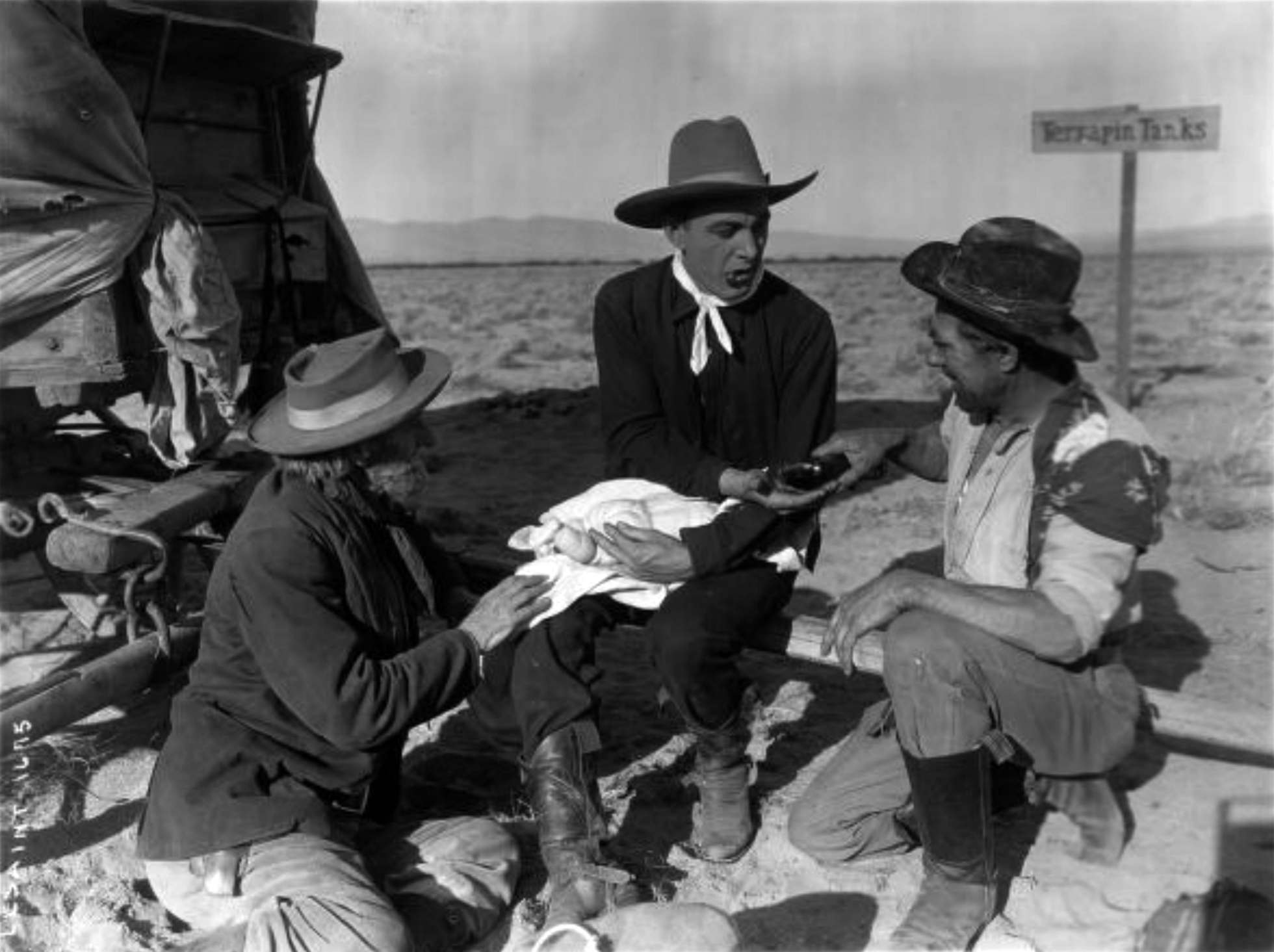 Illustration of an article in The Moving Picture World for the film The Three Godfathers (1916).